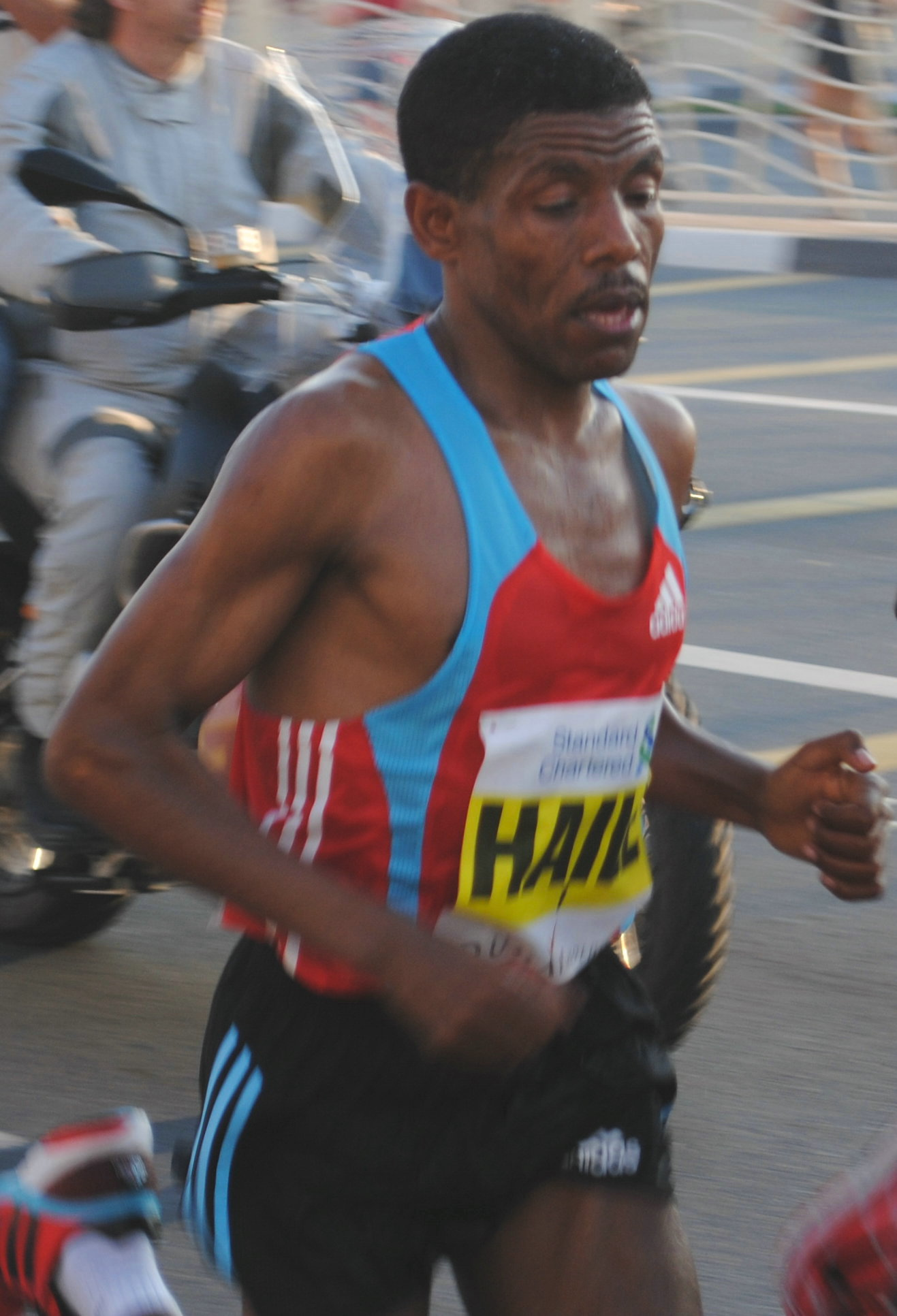 Haile Gebreselassie about 2/3 of the way through the Dubai Marathon 2010. He ended up winning in a time of 2:06:09